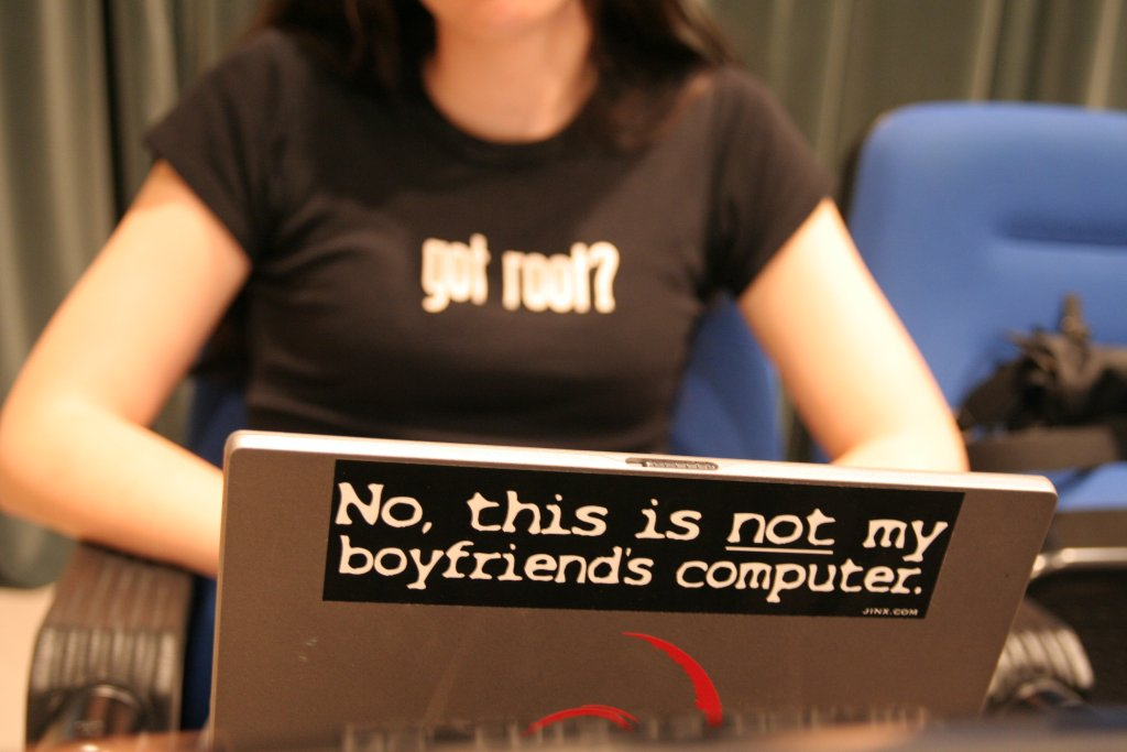 Debian girl's got root on her own computer